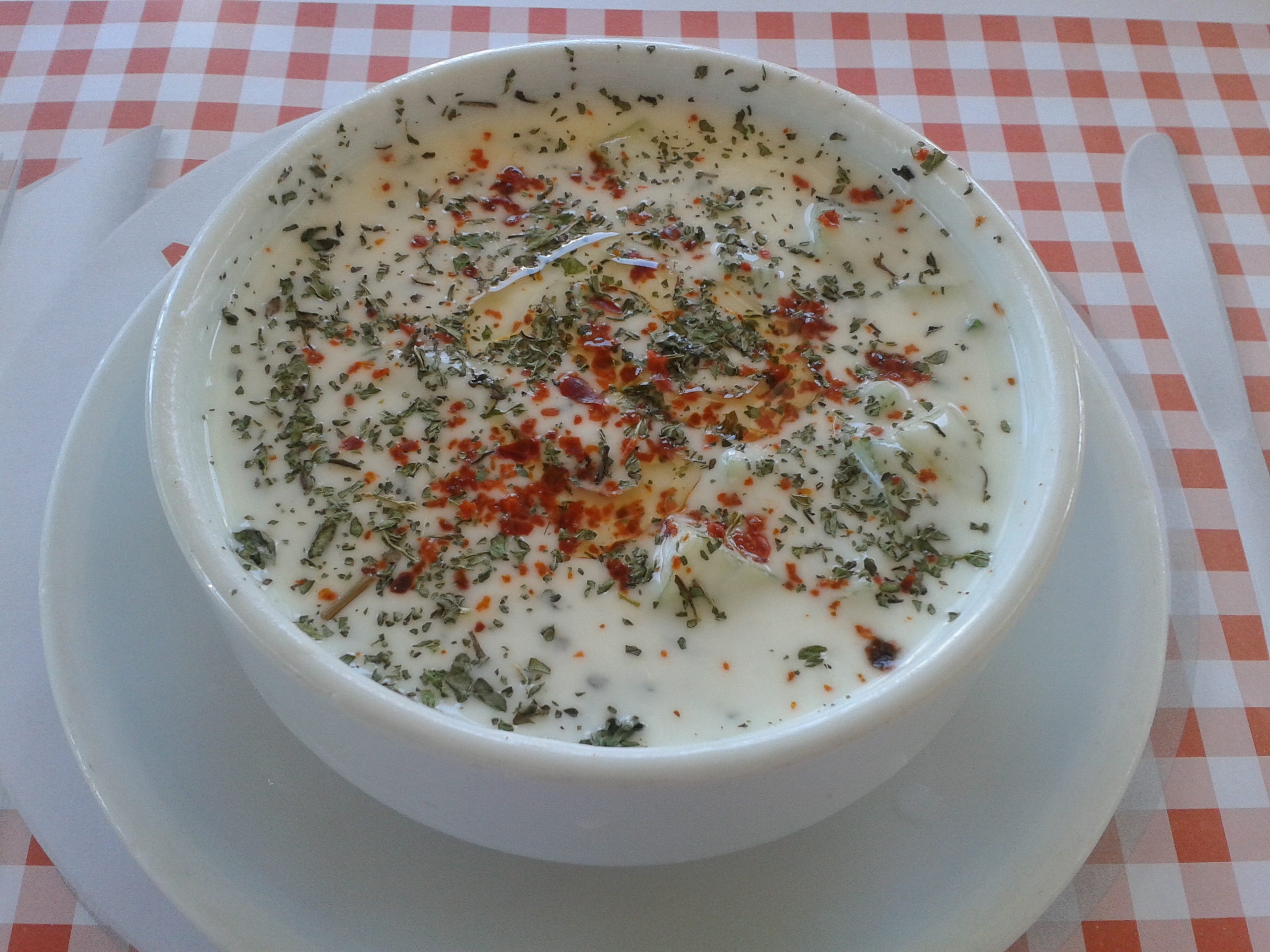 Cacık, the fresh yogurt and cucumber cold soup from Turkey.